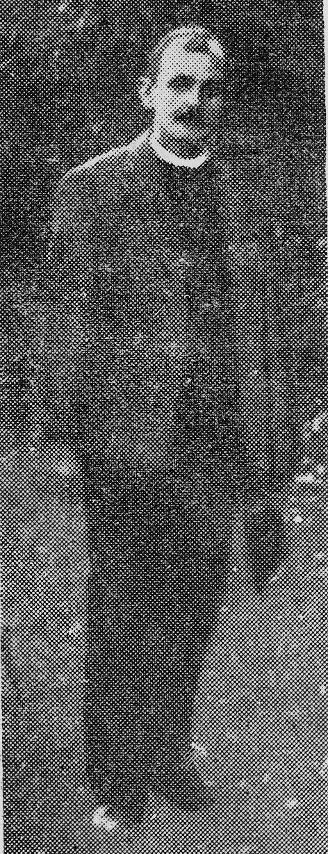 portrait